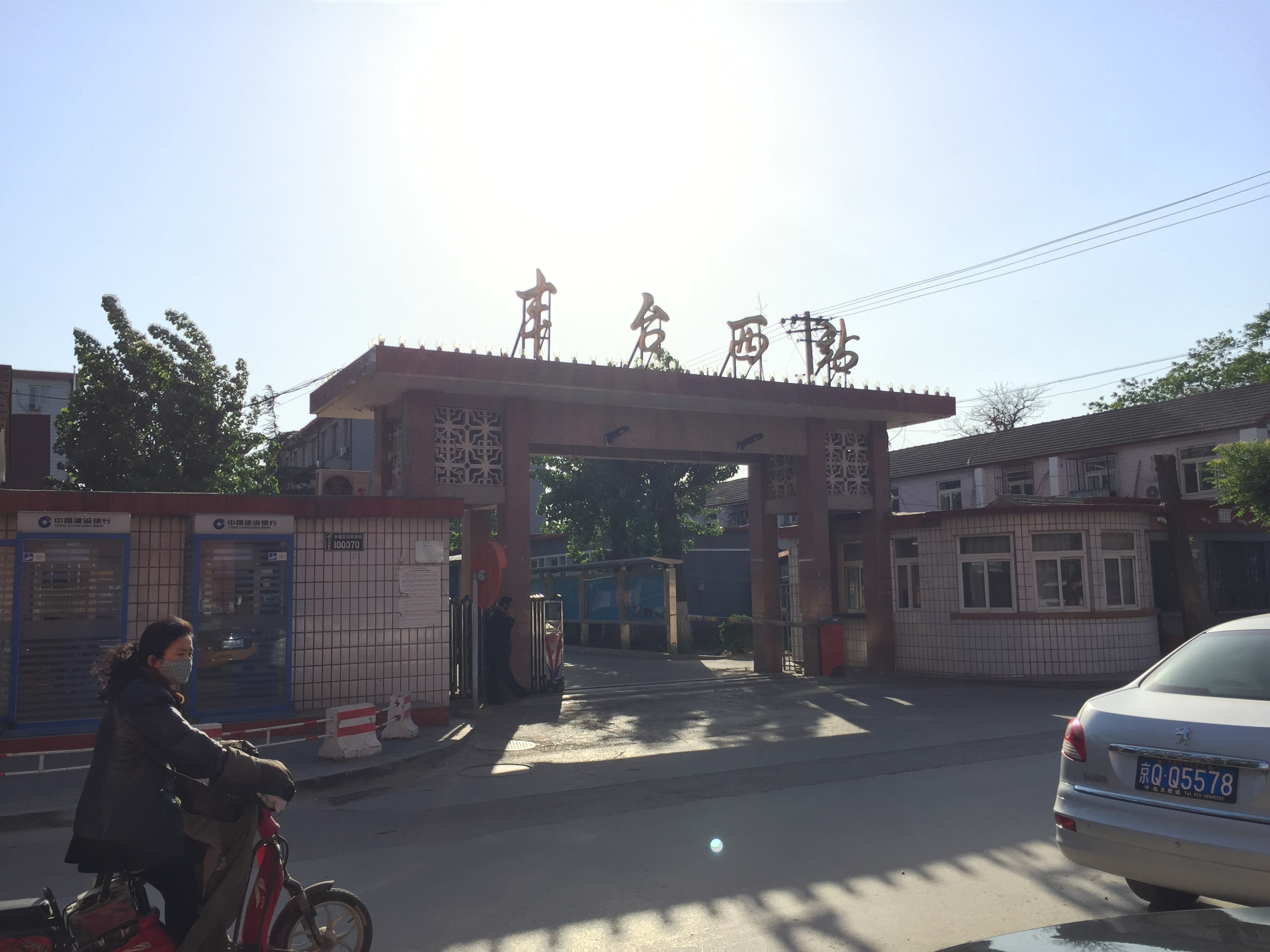 This "station" has a gate, resembling an institute.